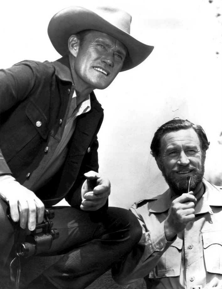 Photo of Chuck Connors and Ronald Howard from the television program Cowboy in Africa.